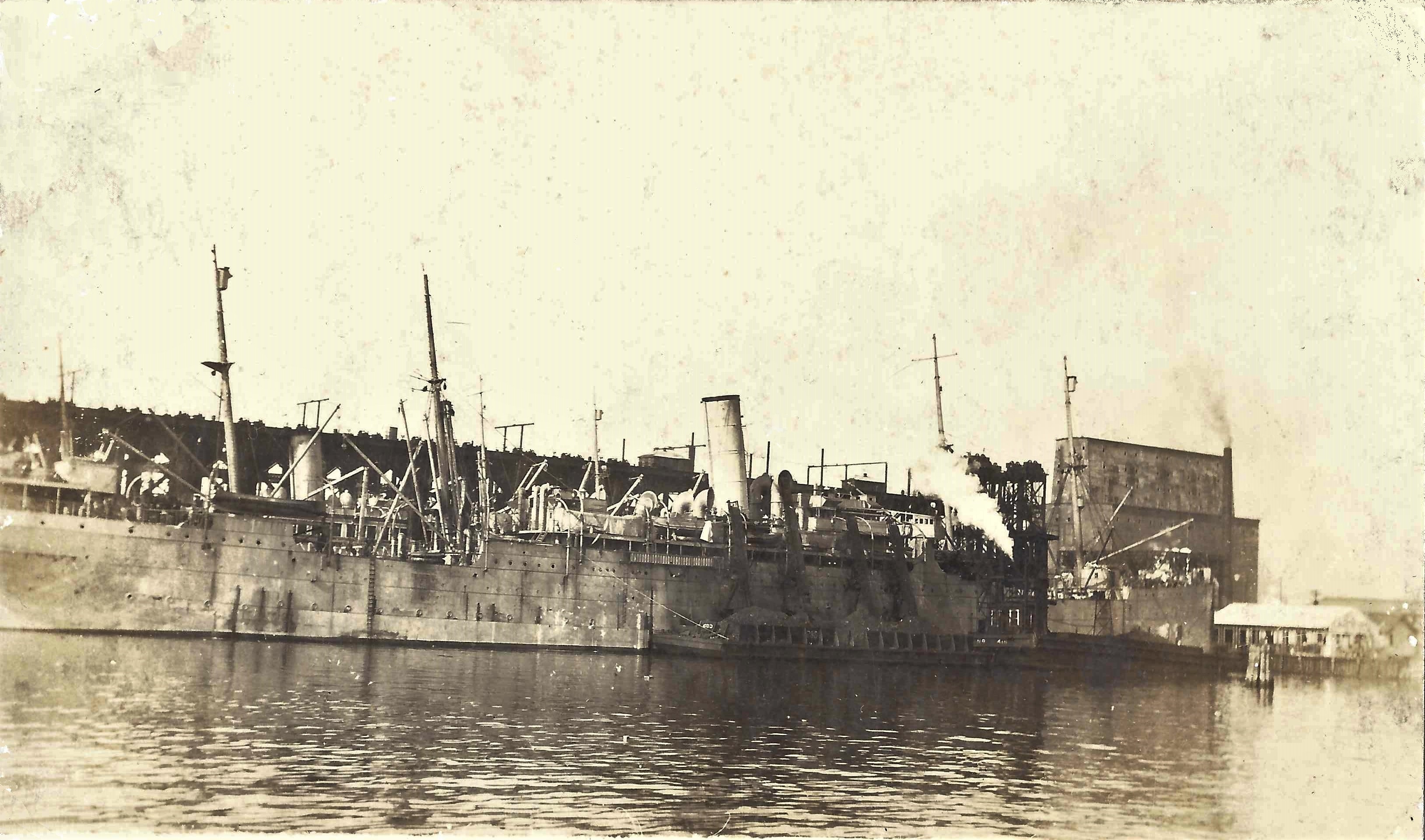 USS Antigone Coaling at the Newport News, Va C&O Coal Pier, 1918, taken from the deck of the USS Susquehanna